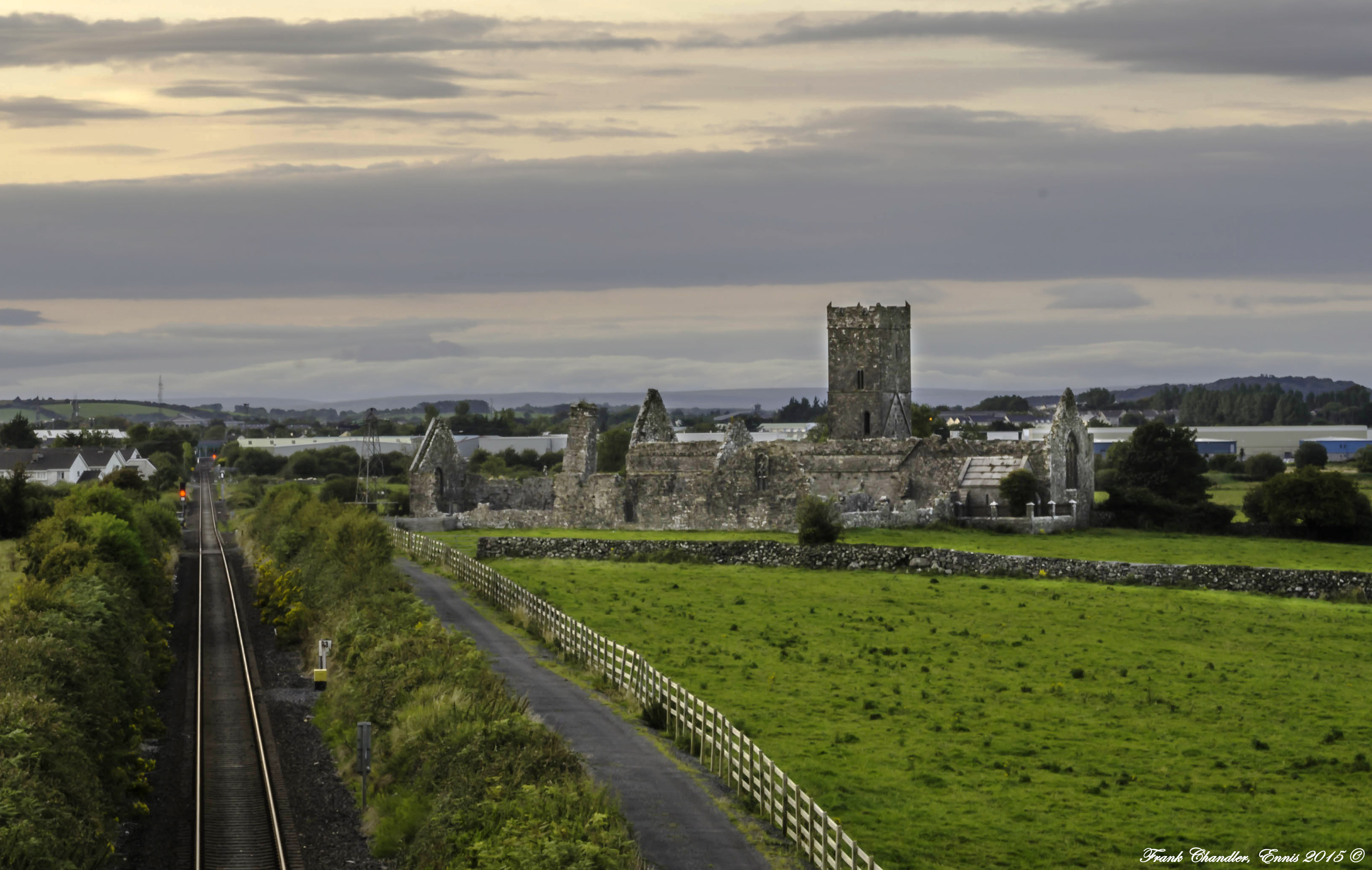 Brian Borus Abbey, Clare Abbey,Clare Abbey is a ruined Augustinian monastery located near Ennis and about a mile north of the Clarecastle in County Clare, Ireland. The abbey was founded in 1195 under the sponsorship of Domnall Mór Ua Briain (Donald O'Brien), the king of Thomond. After the suppression of the monastery in 1543 the parish lands, now the civil parish of Clareabbey, were given to the barons of Ibrackan by King Henry VIII of England. In 1620 it became the property of the Earl of Thomond.[2] The ruins include a church and cloister with ranges of domestic buildings to the east and south of the garth, and a gateway and enclosures. The church was originally a long oblong building, 39 metres by 9 metres 40 centimetres, externally. The interior was subsequently divided into a nave and chancel by a belfry tower 4 metres 80 centimetres, and the chancel 14 metres 75 centimetres, by Frank Chandler, ENNIS, Co Clare